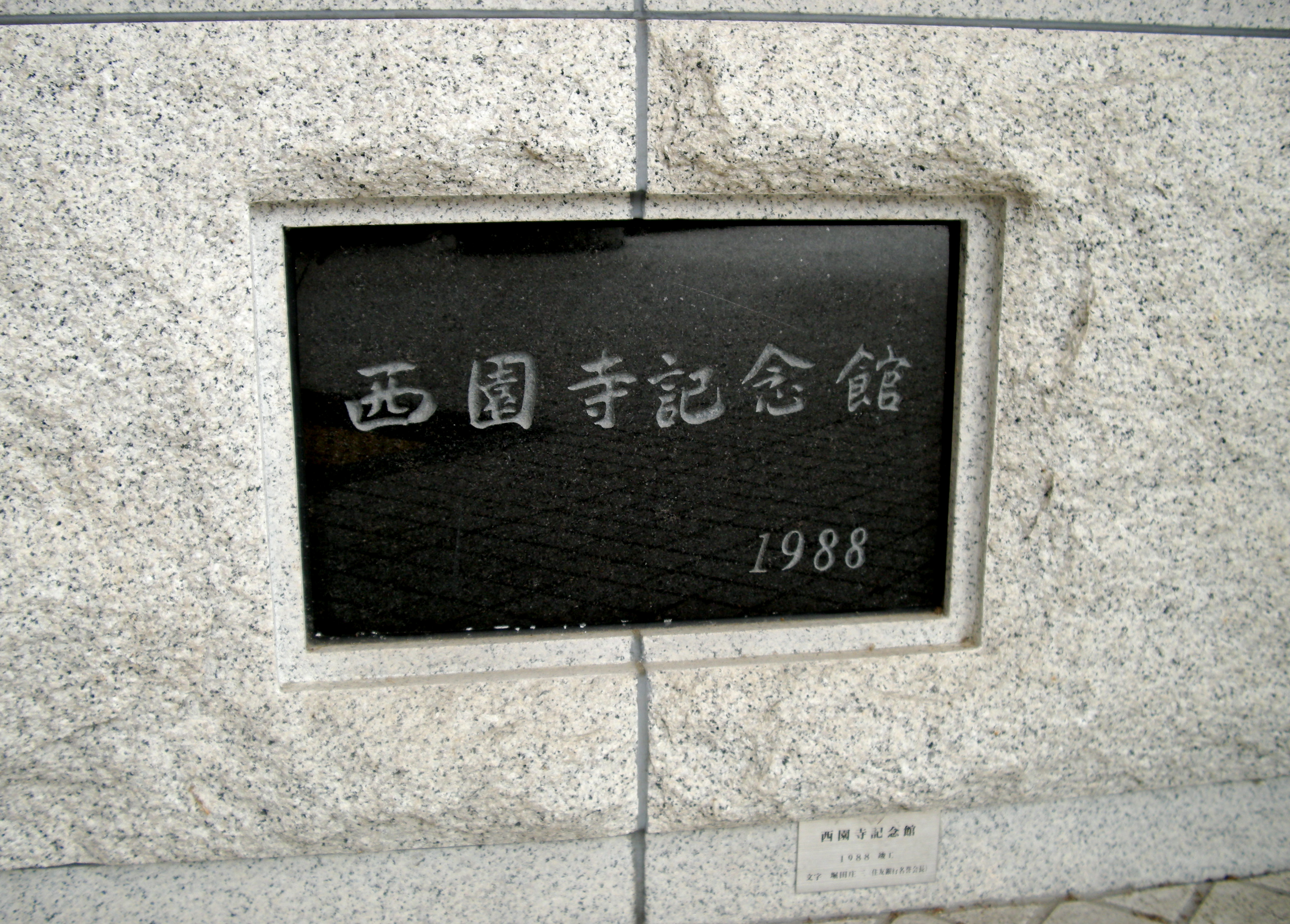 Foundation Stone of Saionji Memorial Hall (By Shozo Hotta, Kinugasa Campus, Ritsumeikan University, Kyoto, Japan)